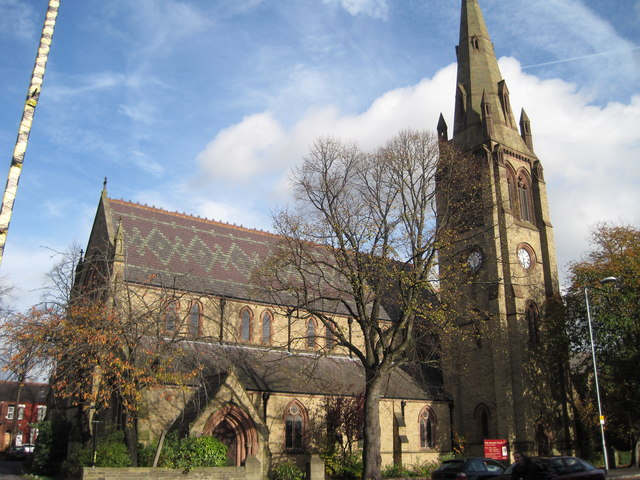 Parish church of the Holy Innocents and St James, Wilbraham Road, Fallowfield, Manchester, seen from the southwest